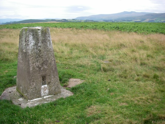 Trig point on Fforest Fach This little-visited summit affords grand views towards the larger hills. Pen y Fan and Corn Du are easily recognised in the distance. The summit plateaux of Fforest Fach, Cefn Llechid and Mynydd Illtud are all on a level between 350 and 400m, suspended between the lowlands of the Usk valley and the high tops of Fforest Fawr. each is formed from the relatively soft mudstones of the St. Maughans Formation - the odd resistant sandstone beds within this formation give rise to steps in the landscape.